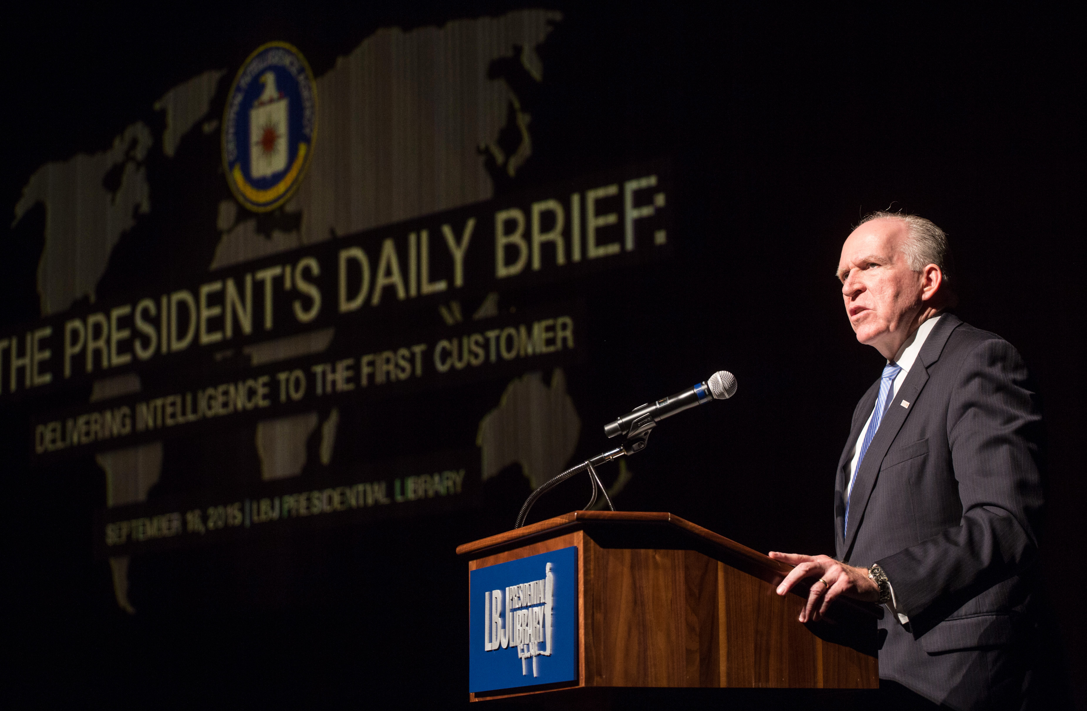 On Wednesday, Sept. 16, 2015, at a public event at the LBJ Presidential Library, the Central Intelligence Agency released over 2,500 previously classified President's Daily Briefs (PDBs) from the administrations of Presidents Kennedy and Johnson. It was the biggest release of PDBs by the CIA, ever. The event, entitled "The President's Daily Brief: Delivering Intelligence to the First Customer," featured CIA Director John O. Brennan as the keynote speaker. Director of National Intelligence James R. Clapper delivered closing remarks. In addition, the event featured a panel discussion and remarks by other leaders from the academic, archivist, and intelligence communities, including William H. McRaven, Chancellor of the University of Texas System, former CIA Director Porter Goss, former CIA Deputy Director Bobby Inman, and others. LBJ Library photo by Jay Godwin